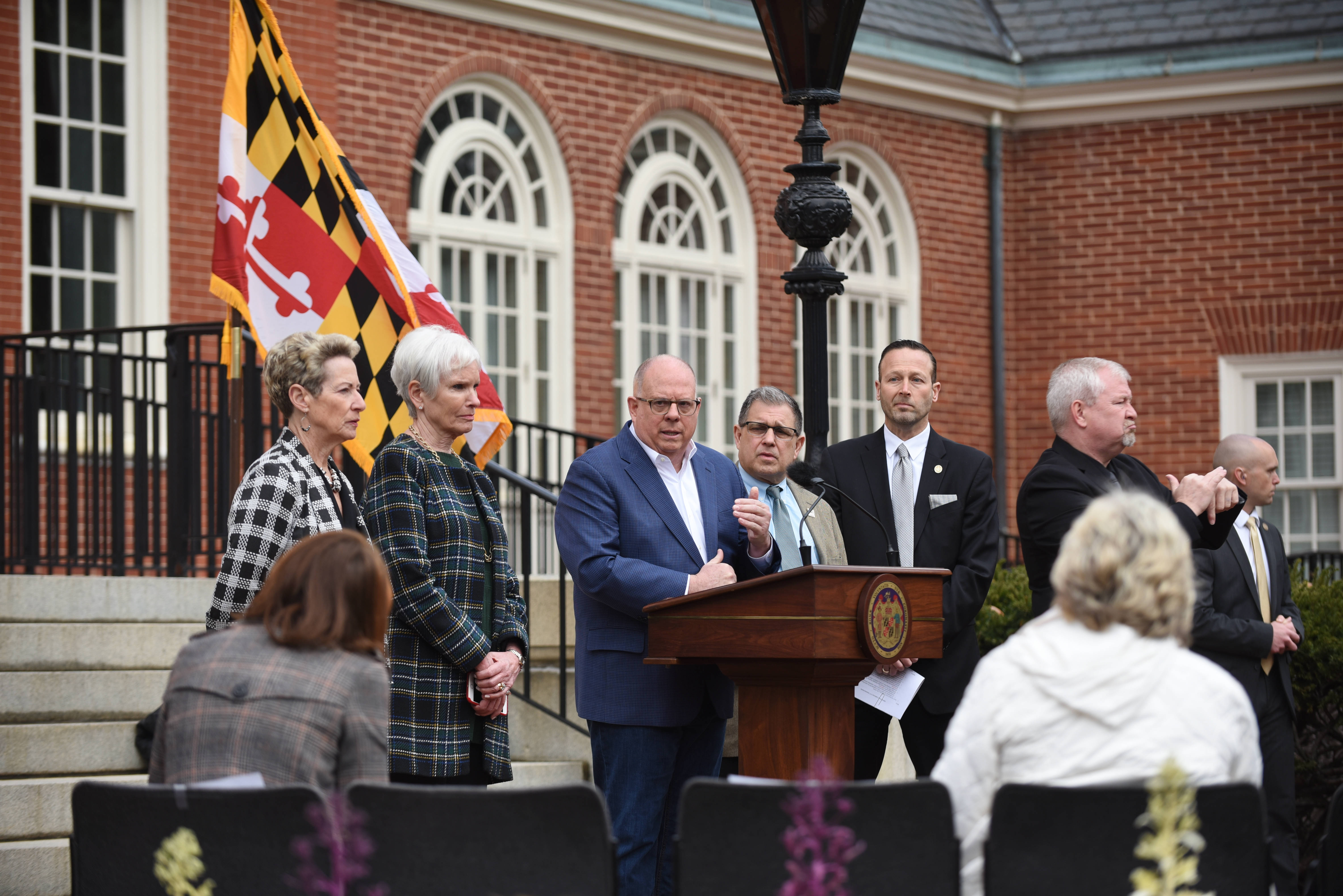 Governor Hogan Holds a Press Conference on the Government House Lawn about Coronavirus by Patrick Siebert at 110 State Circle, Annapolis Maryland 21401